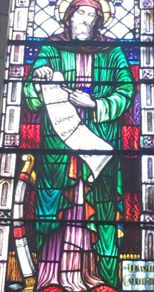 An Túr Gloine, Stained Glass Window, Honan Chapel, Cork, Ireland